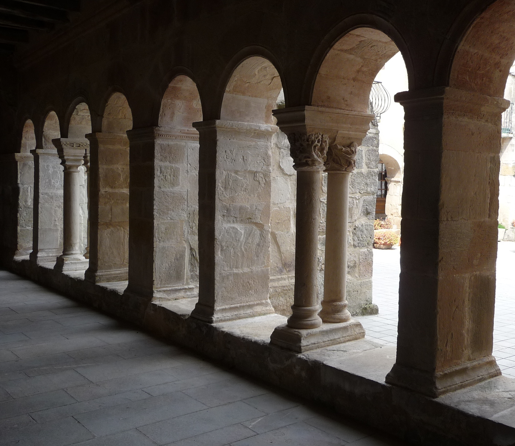 old Benedictine cloister of Joncels